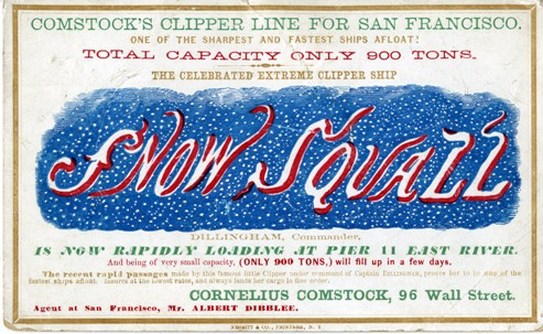 SNOW SQUALL Clipper ship sailing card. Billingham, Commander. Very likely the wrong colour and should be replaced